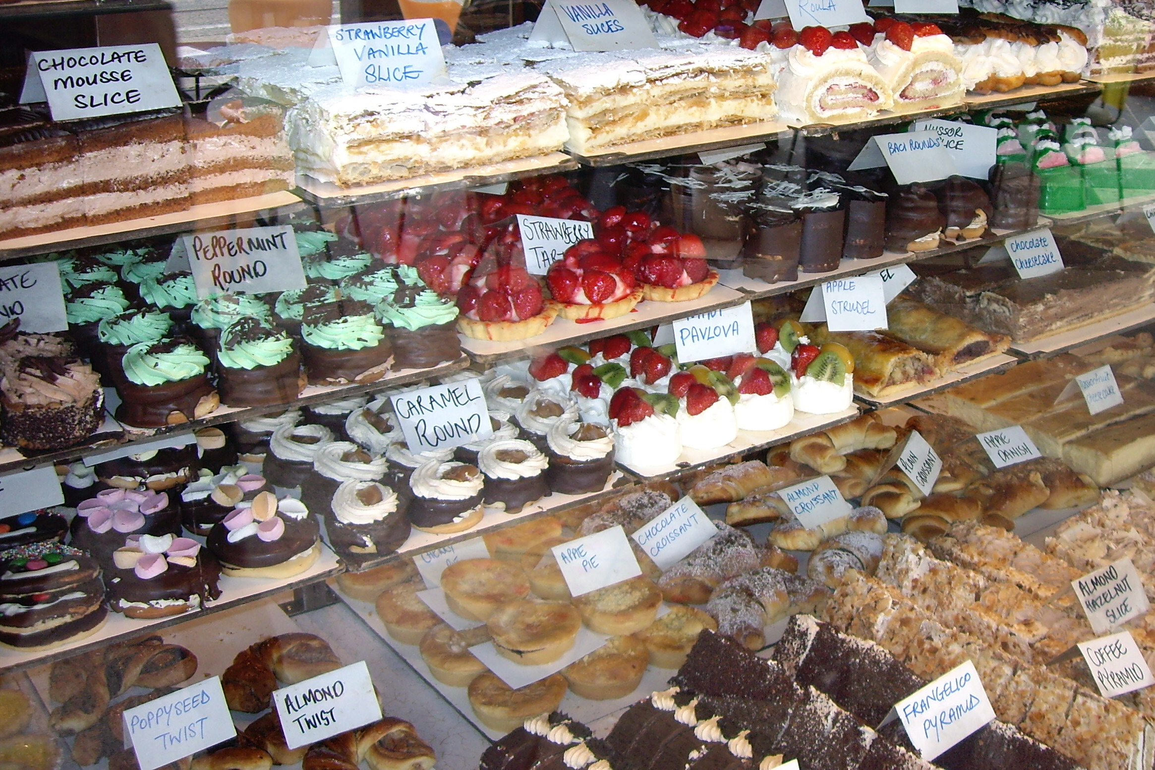 Photograph taken by VirtualSteve. Full catalogue of all my images uploaded to Wikipedia available here Images